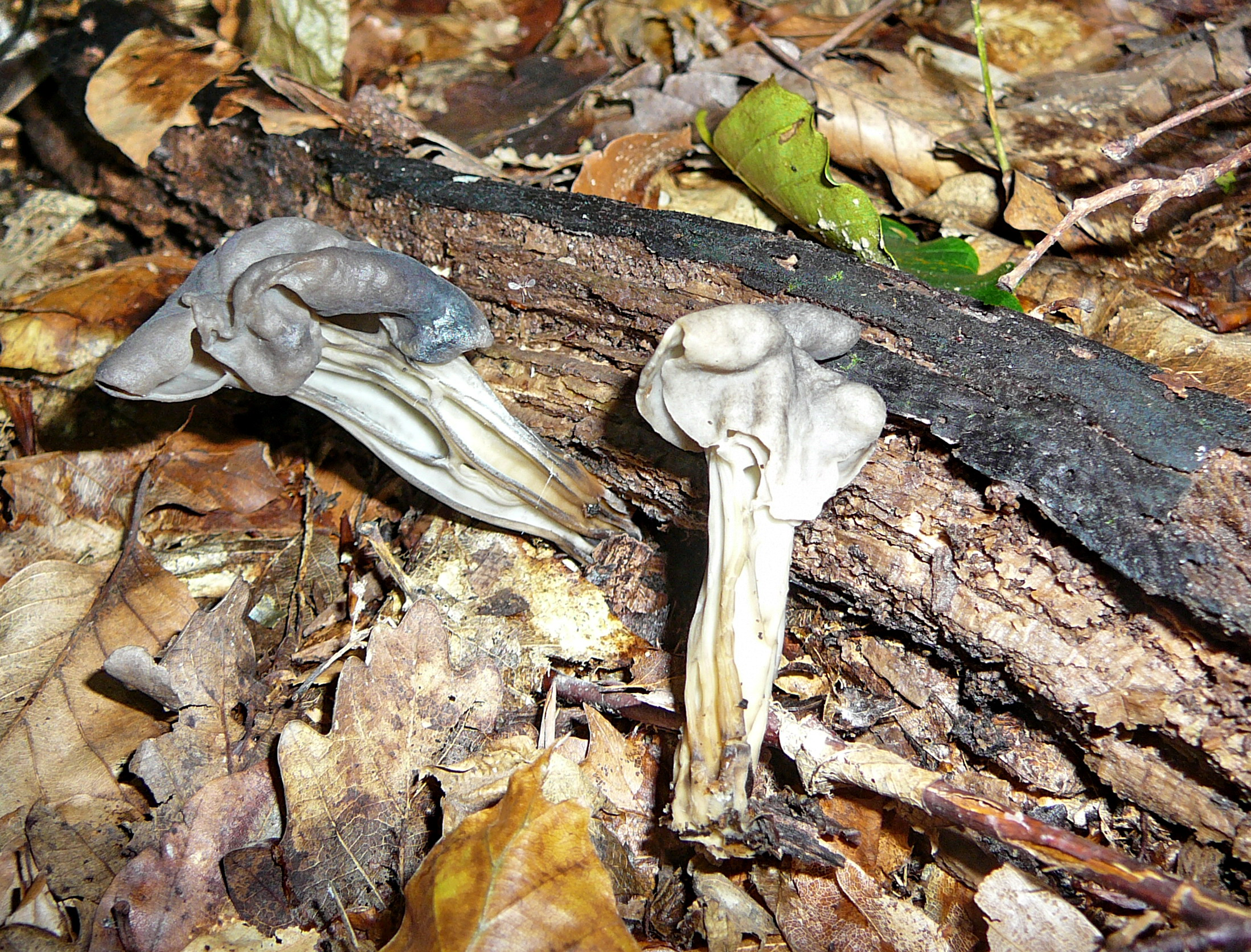 Helvella lacunosa in an oak wood in Český Kras near Karlstein, Central Bohemia, the Czech Rep.